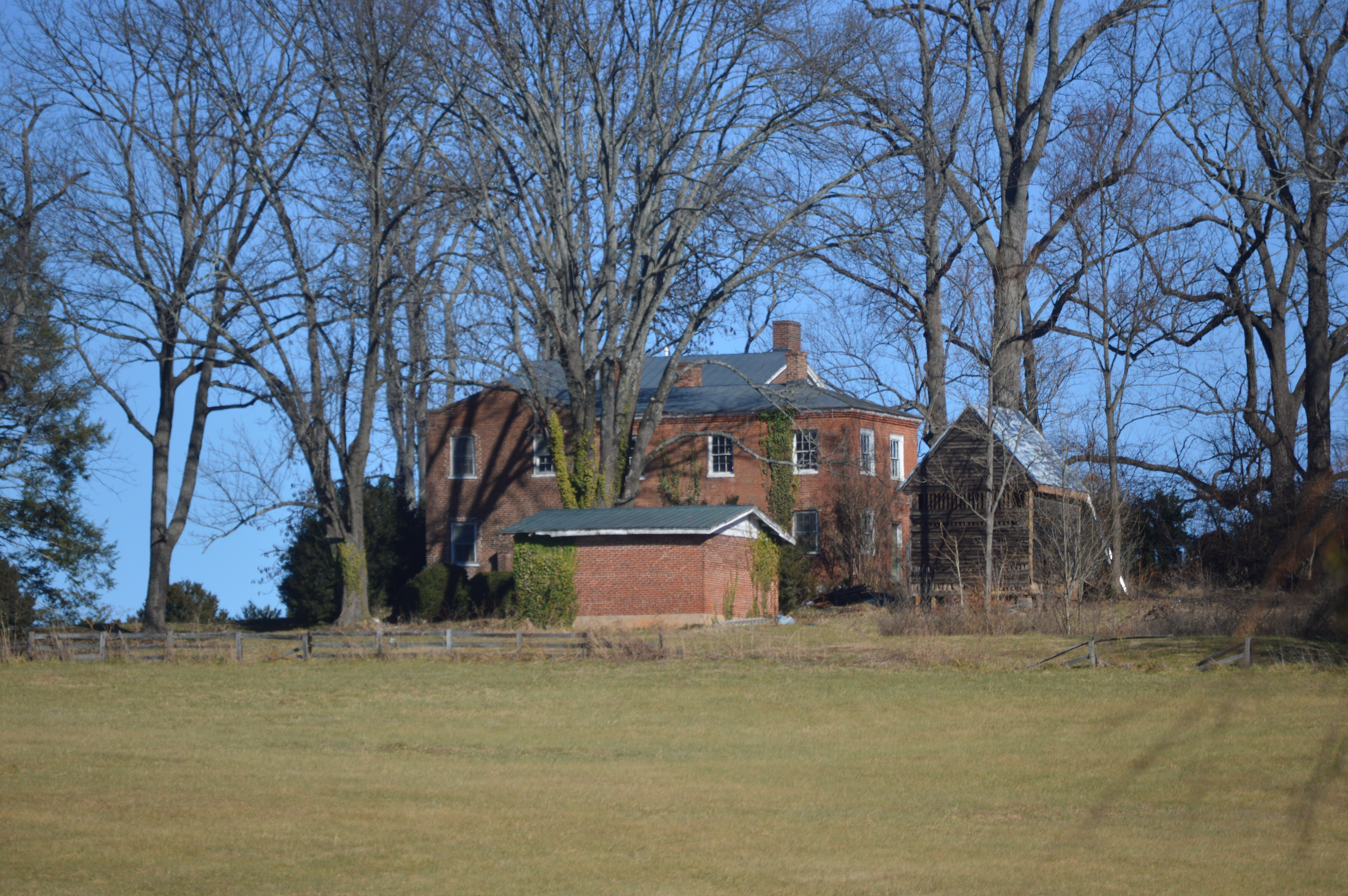 Distant view from the southwest of Berry Hill, located off Old Gordonsville Road immediately south of Orange in Orange County, Virginia, United States. Built in 1827, it is listed on the National Register of Historic Places.